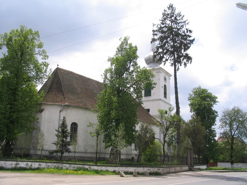 Reformed church in Ozun (hu. Uzon, de. Usendorf), Covasna county, Transylvania, Romania